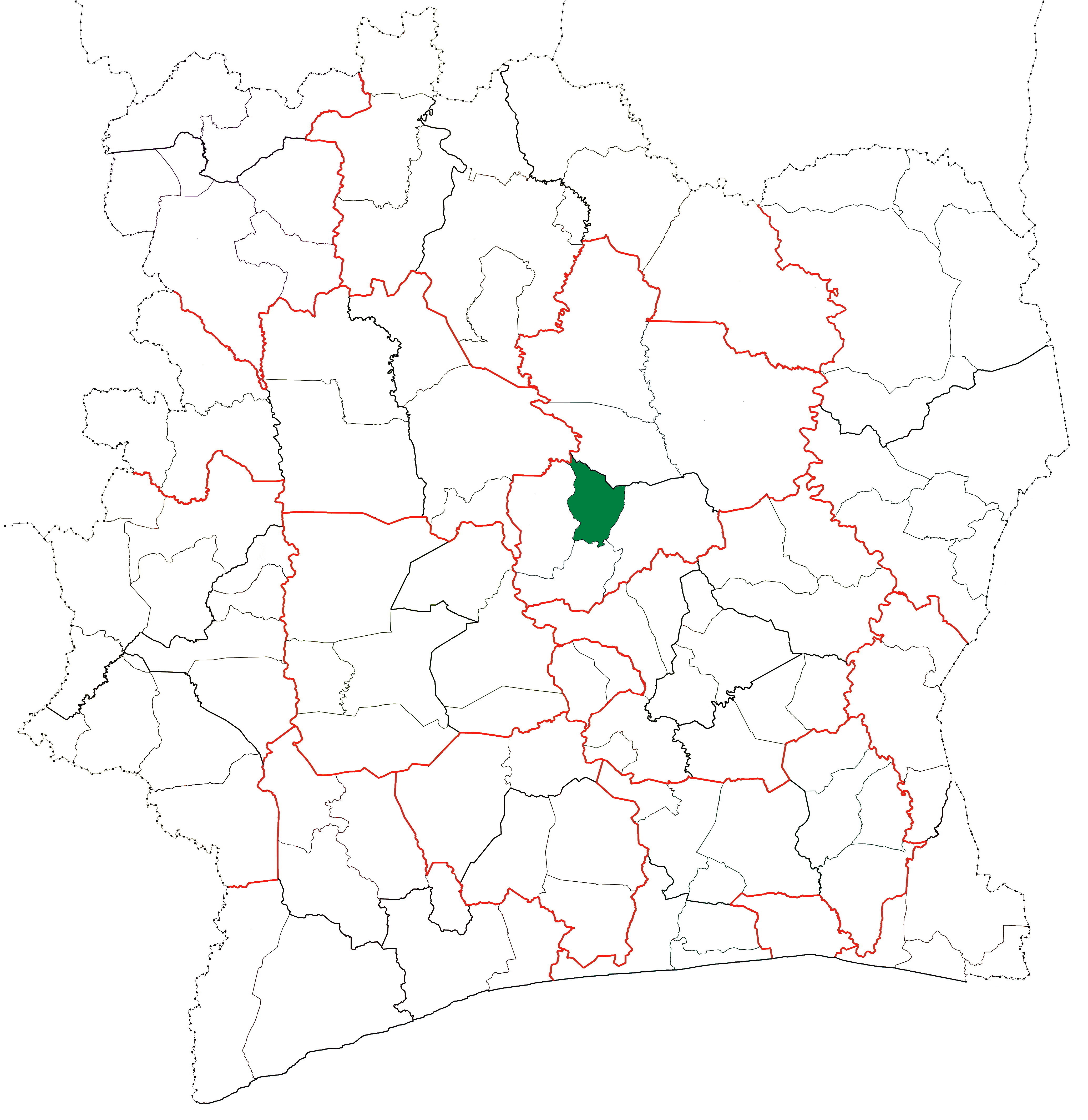 Locator map for Botro Department in Côte d'Ivoire.